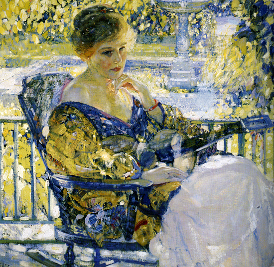 "Girl with a Guitar (Daydreams)", Richard E. Miller, Oil on Canvas, 34" x 36" (1916-17; painted in Pasadena) Sheldon Memorial Art Gallery, Univ of Nebraska, Lincoln